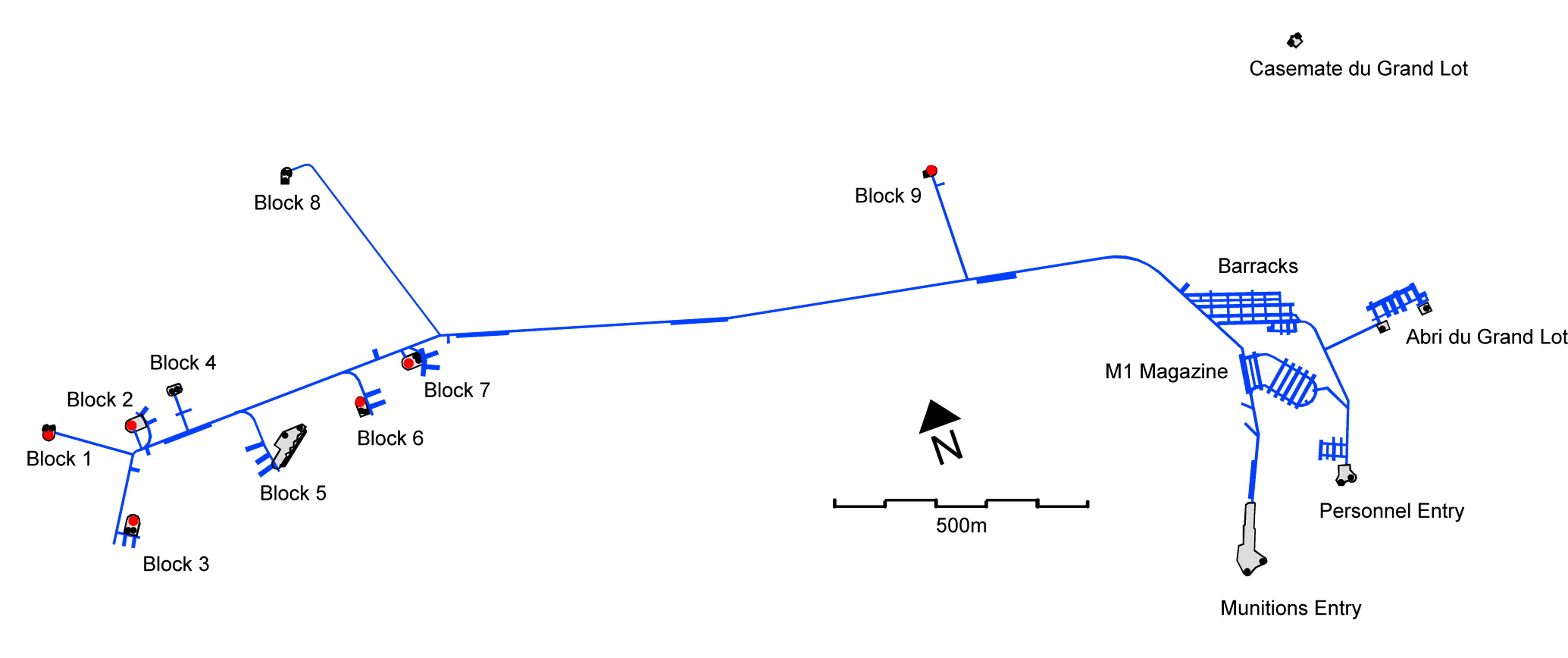 Ouvrage Rochonvillers of the Maginot Line